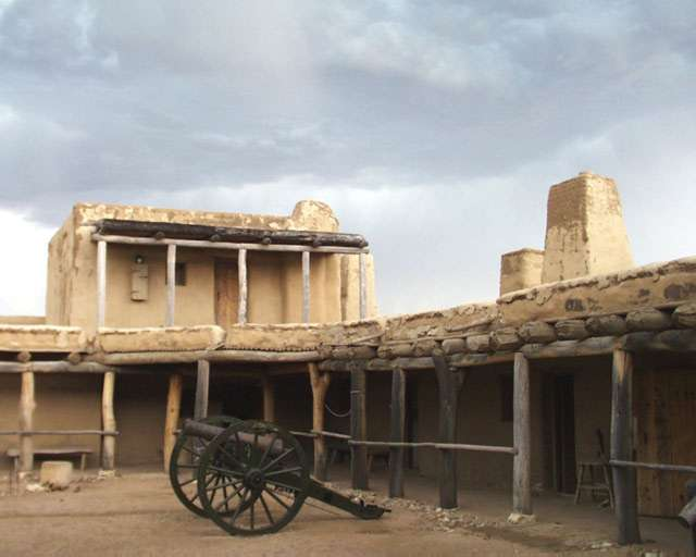 Bent's Old Fort, near La Junta, Colorado, USA. Courtyard with canon